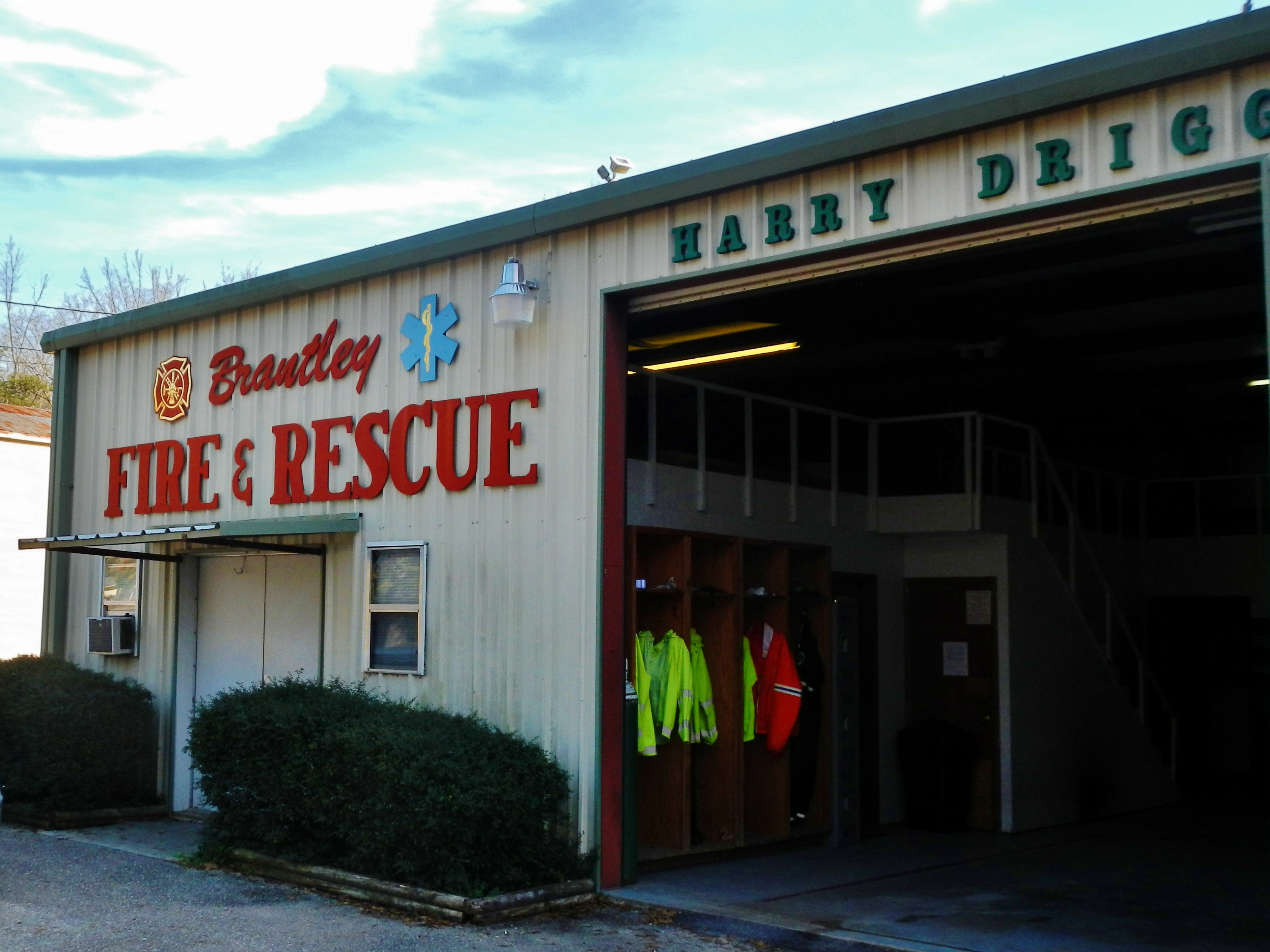 This is a photo of the Brantley Fire Department in Brantley, Alabama.